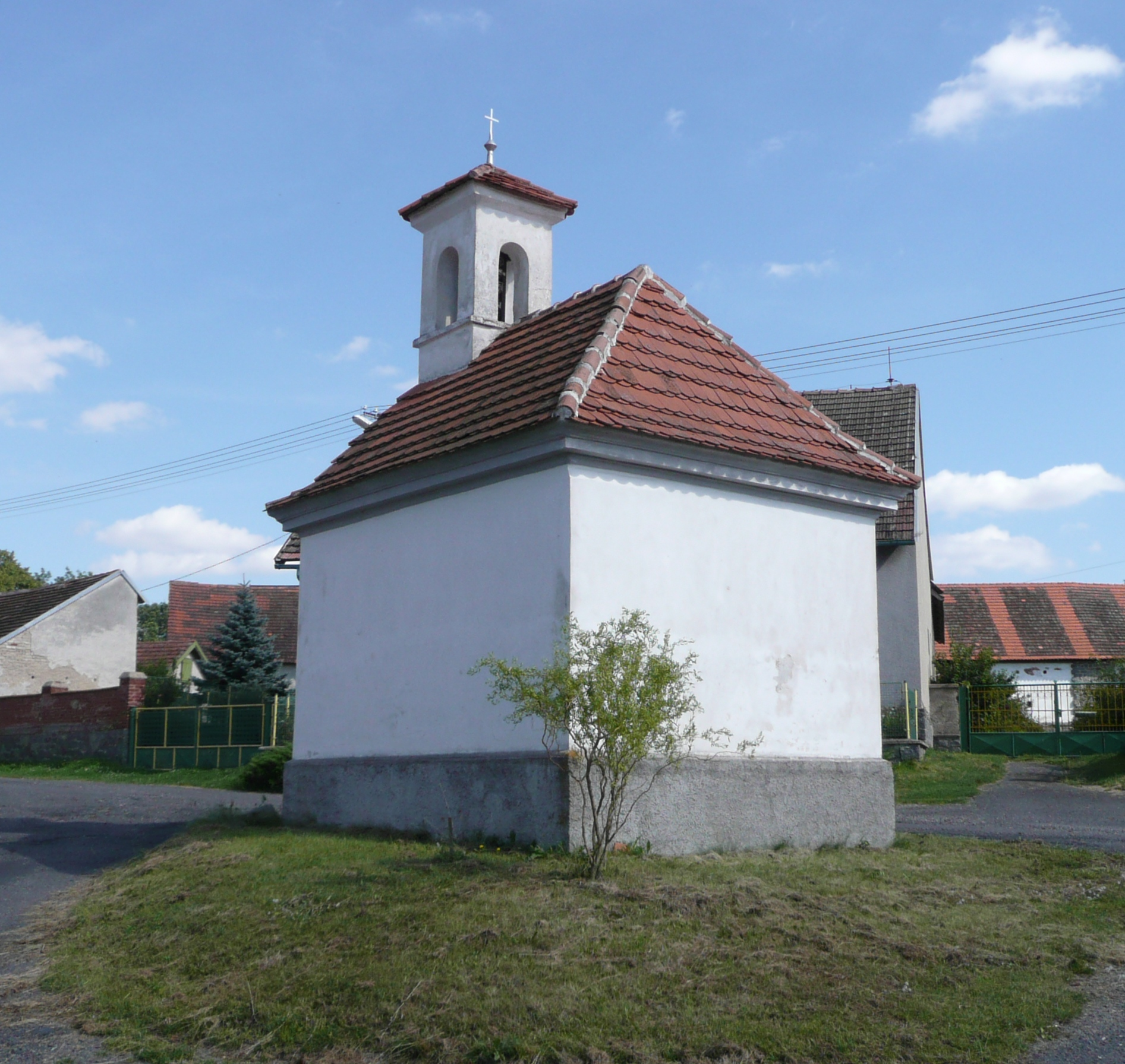 Chapel of Jan Nepomuk in Ráztely